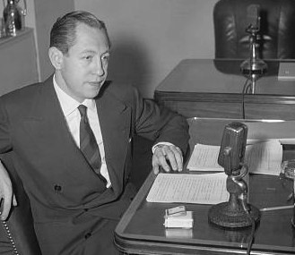 CBS founder William S. Paley sitting at microphone, circa 1939